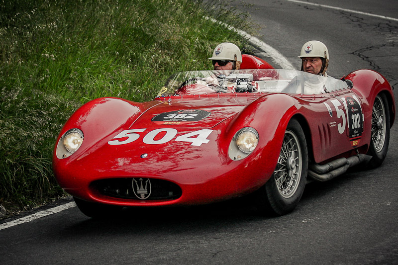 Entry #382 at Mille Miglia on 24 May 2012 is MASERATI 200SI (1957) s/n 2415, driven/entered by Baumann (DE) and Biedermann (DE), here at SS della Futa a Pianoro (BO)